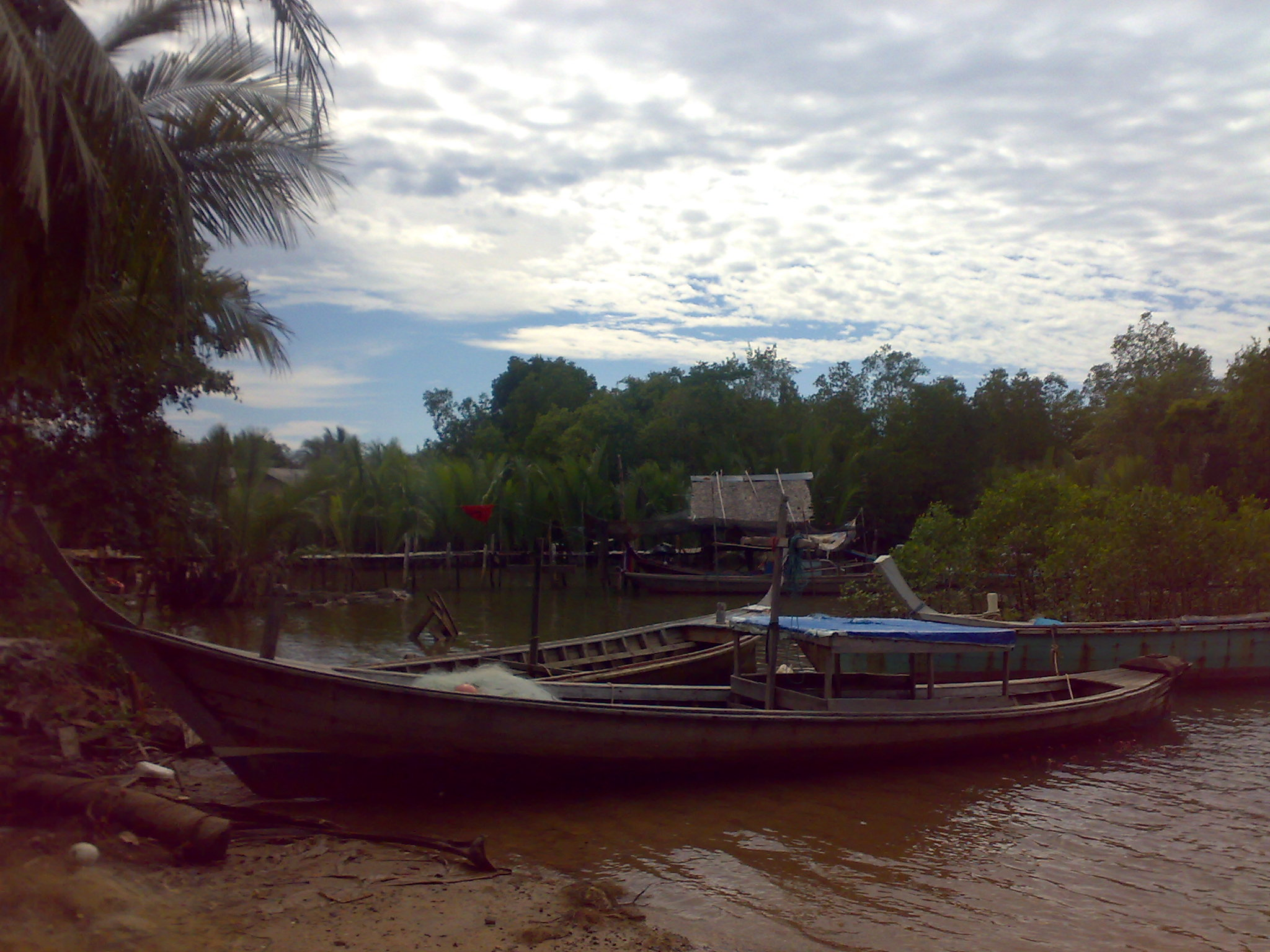 Fishery boats in river delta, Ban Ko Nok, Thai Mueang, Phang Nga, Thailand